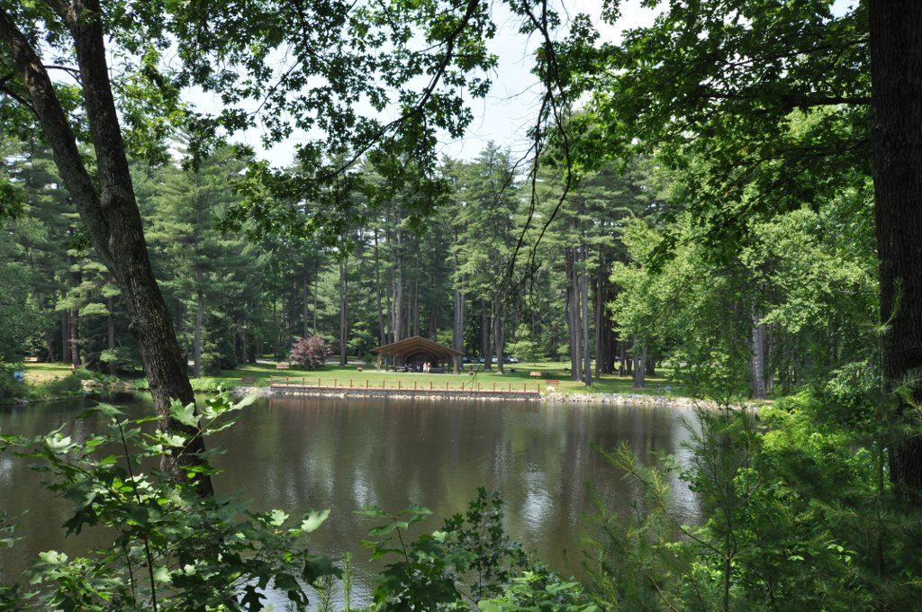 Amphitheater at Look Park, Florence, MA